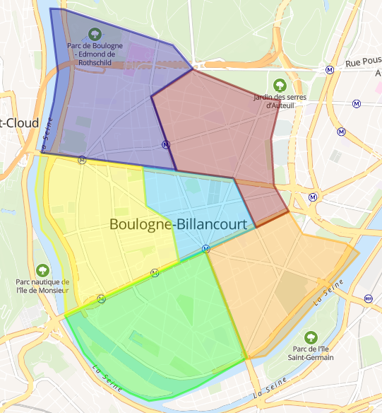 Neighborhoods in Boulogne-Billancourt. Parchamp - Albert Kahn Les Princes - Marmottan Silly - Galliény Centre-Ville Billancourt - Rives de Seine République - Point du Jour This map of Boulogne-Billancourt was created from OpenStreetMap project data, collected by the community. This map may be incomplete, and may contain errors. Don't rely solely on it for navigation.